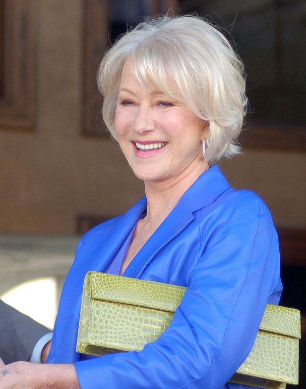 Helen Mirren at a ceremony to receive a star on the Hollywood Walk of Fame.